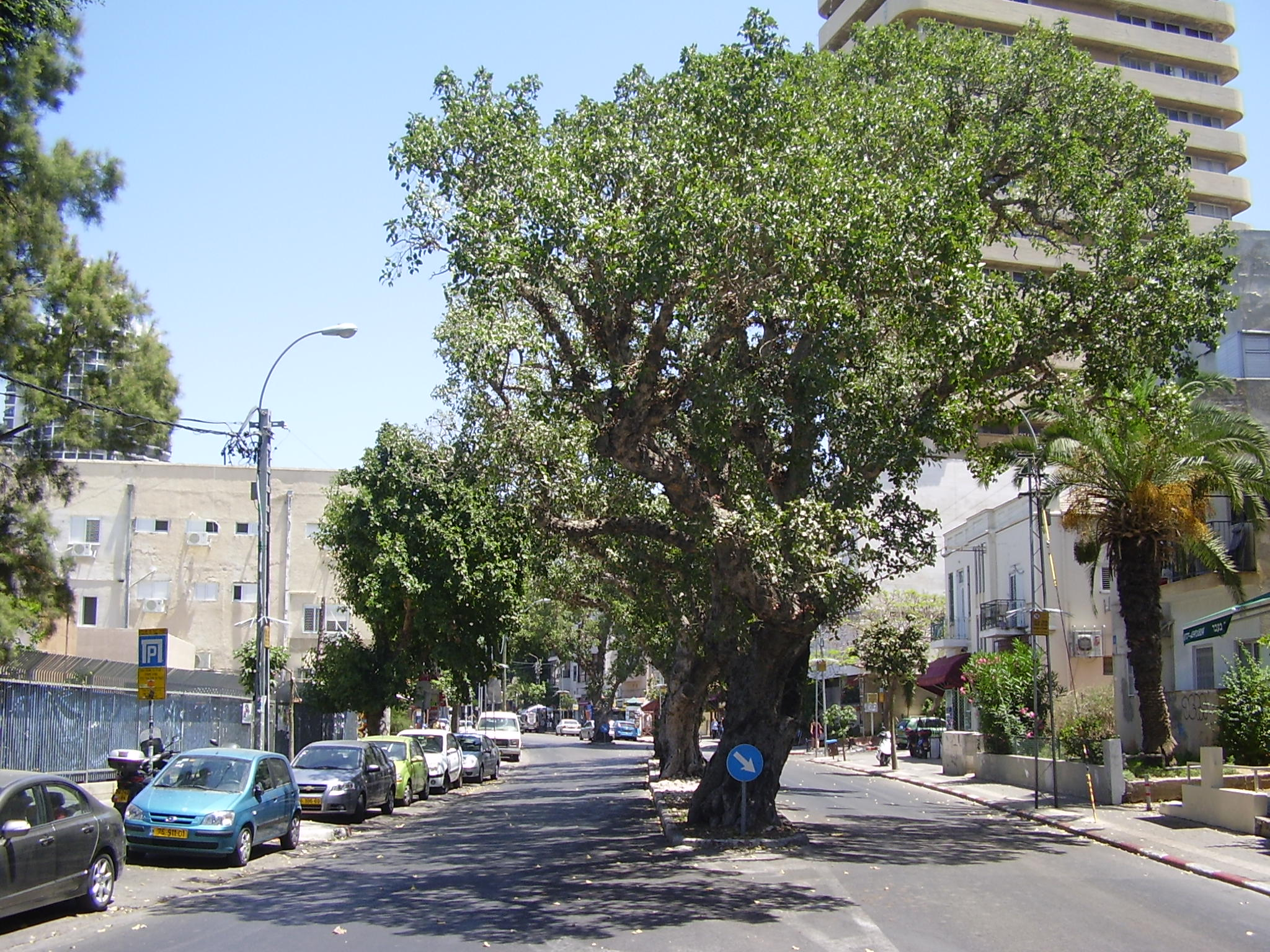 sycamore trees in tel-aviv